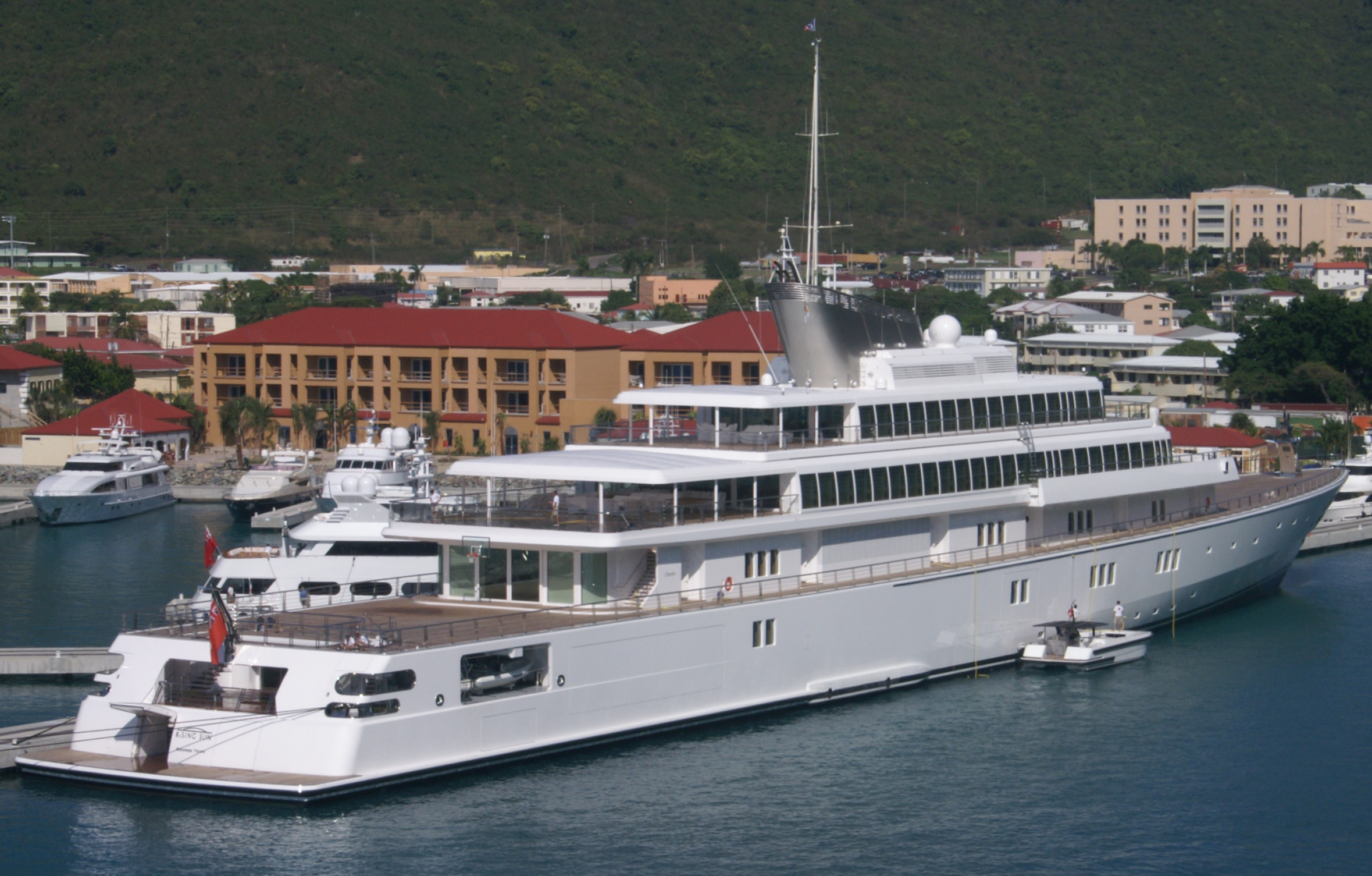 Rear and side view of the Rising Sun yacht originally owned by Larry Ellison.